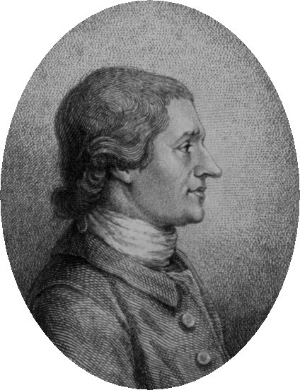 Charles Thomson Esqr. Secretary to Congress